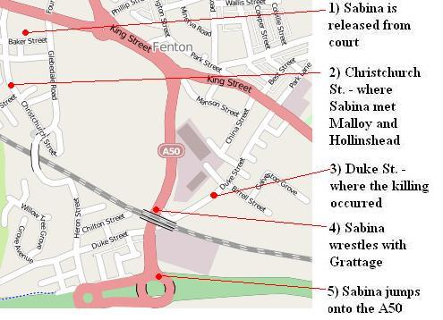 Sabina Eriksson in Fenton using Open Street Map. © OpenStreetMap contributors, CC-BY-SA